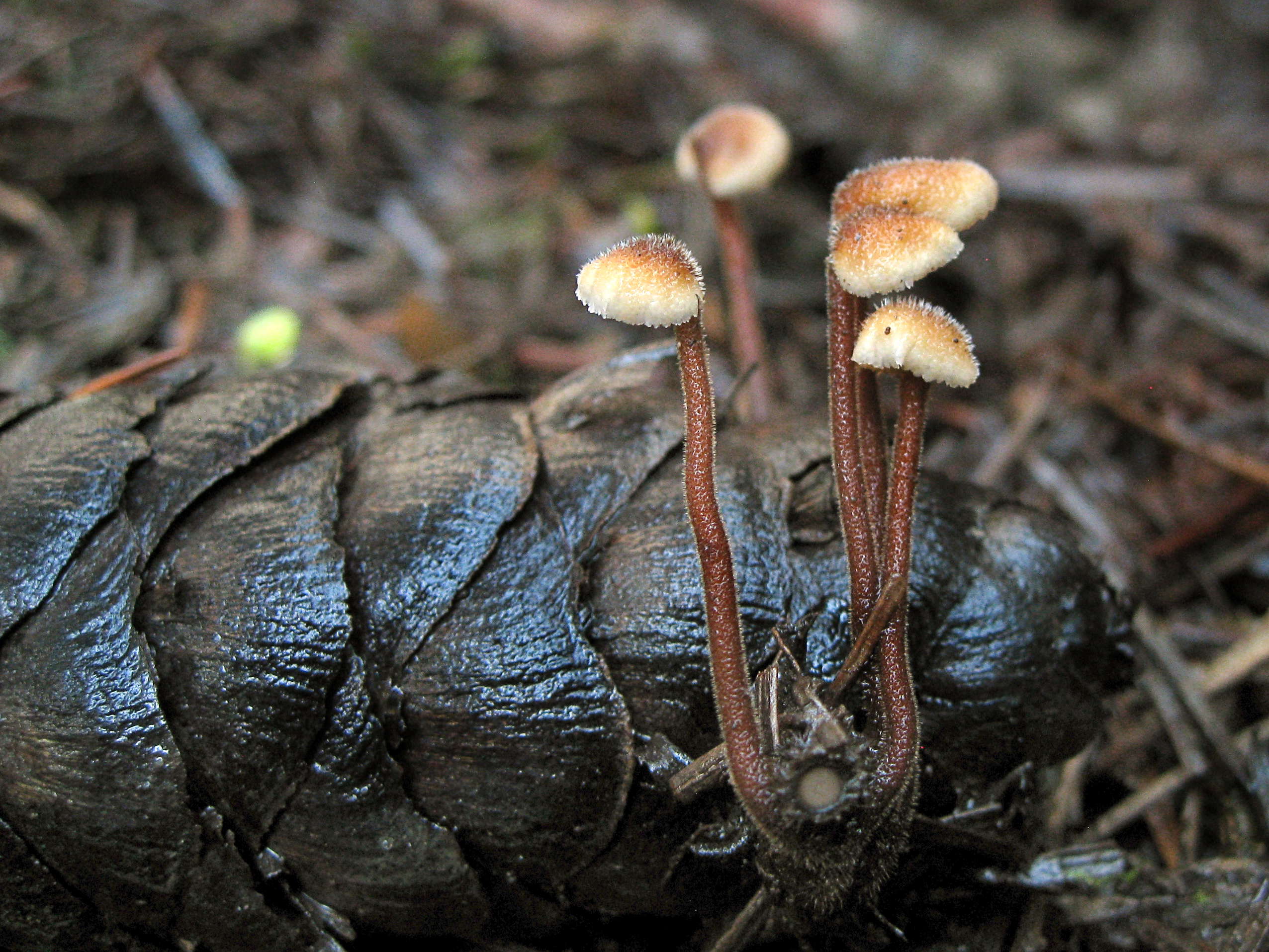 Auriscalpium vulgare Gray Image location: Redway, California, USA Recognized by sight For more information about this, see the observation page at Mushroom Observer.